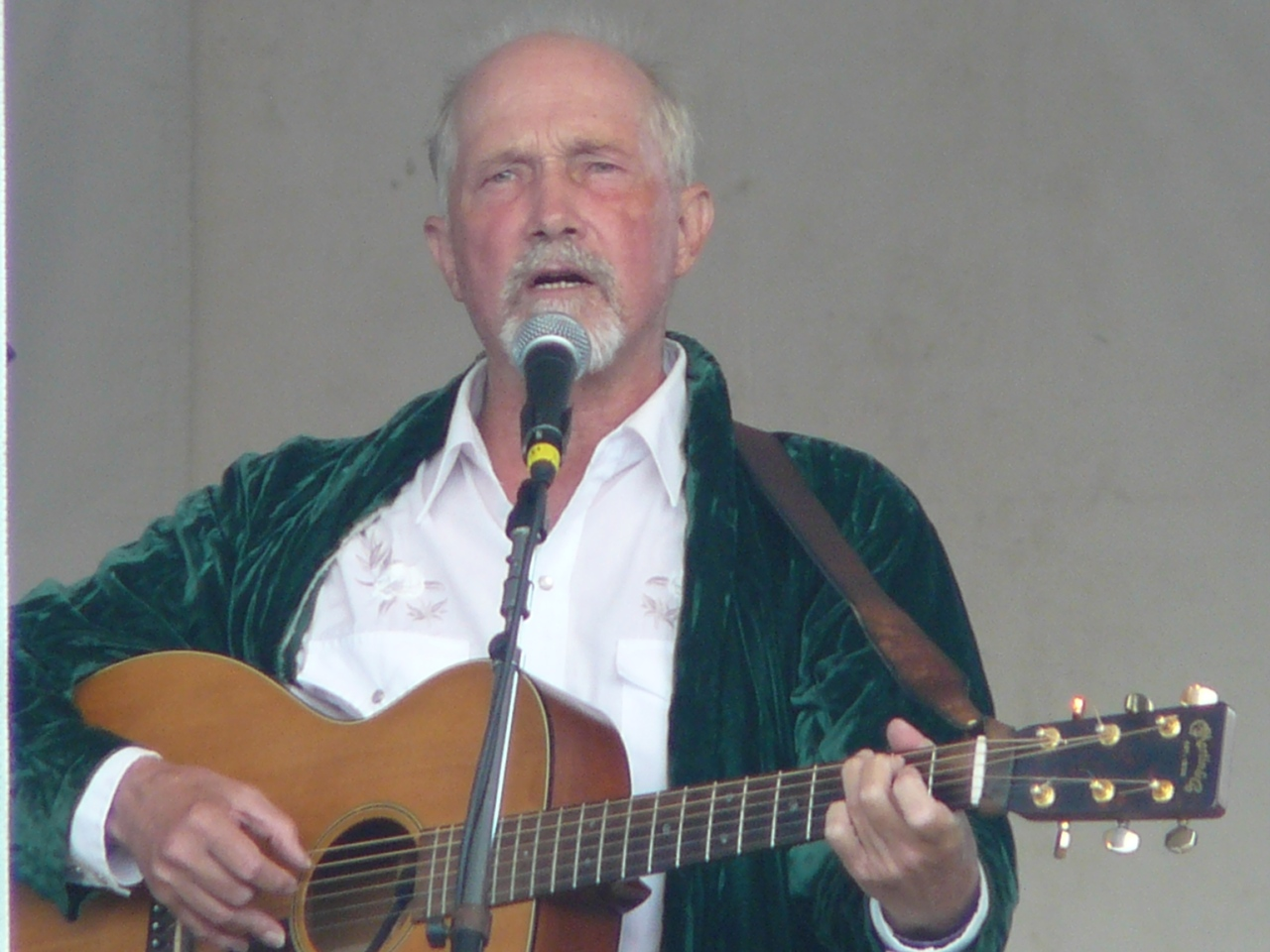 Falcon Ridge Folk Festival 2008; July 25, 2008; The Folk Brothers; Jack Hardy